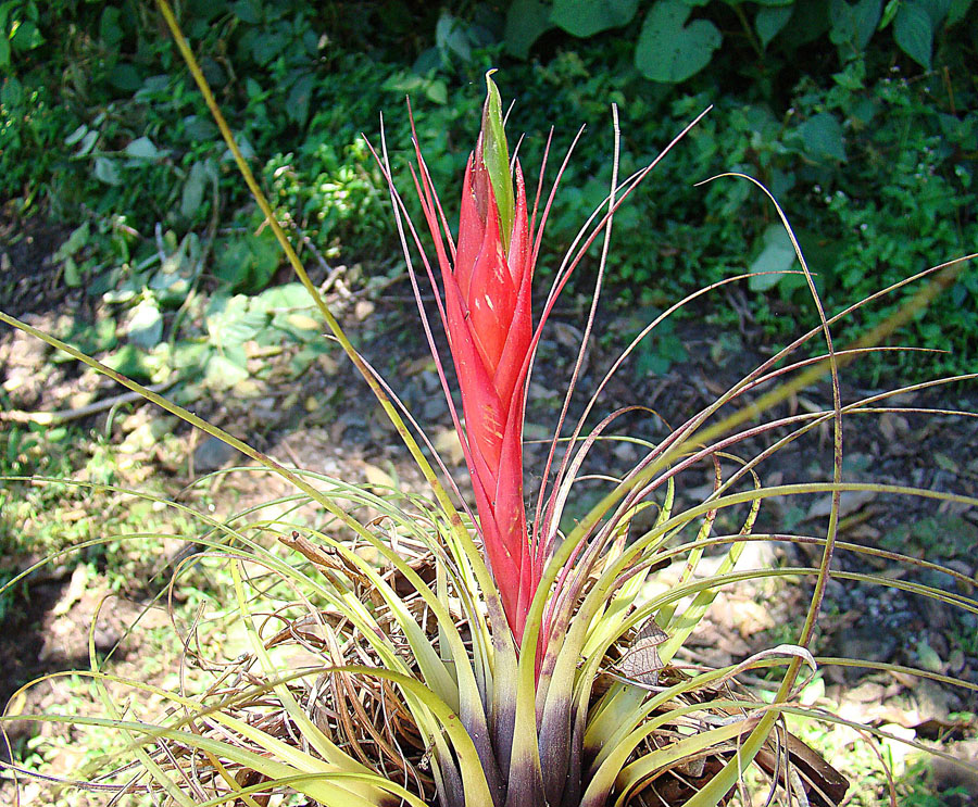 Photo from above the town of Boquete in western Panama. In context at